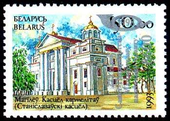 Stamp of Belarus